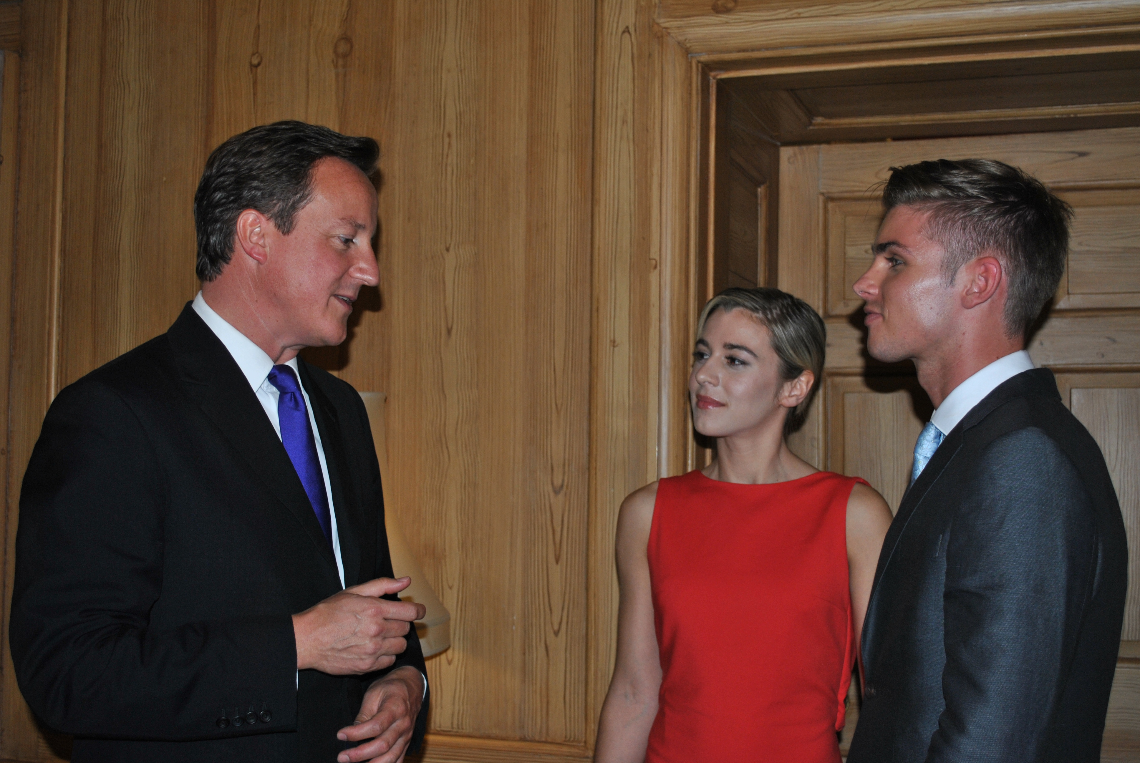 David Cameron with Hollyoaks actors Victoria Atkin and Kieron Richardson at an LGTB reception at No10 to launch new campaign to kick homophobia and transphobia out of sport.